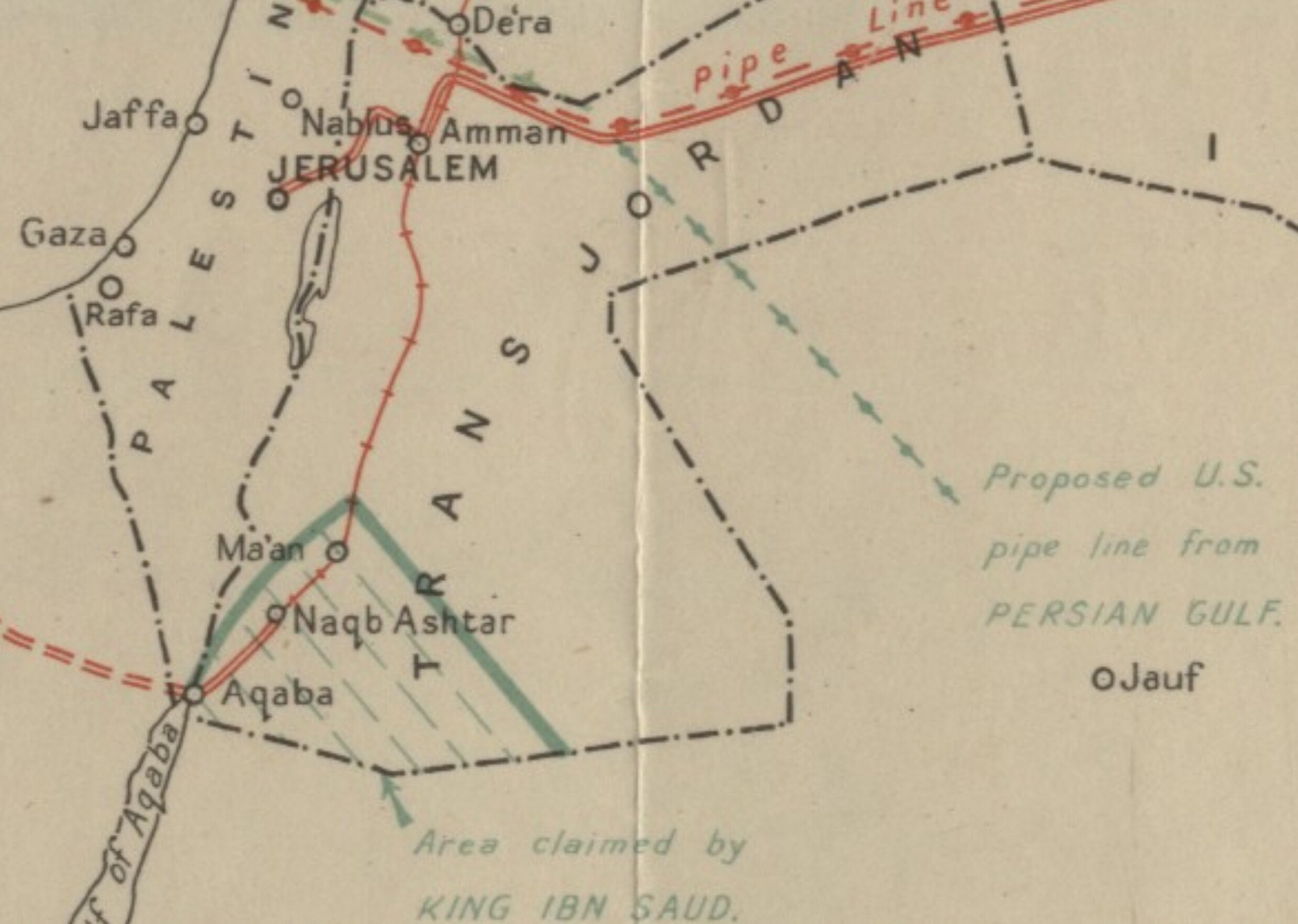 From Amir Abdullah: Status and and Future of Trans Jordan (CO 537/1842) in 1946